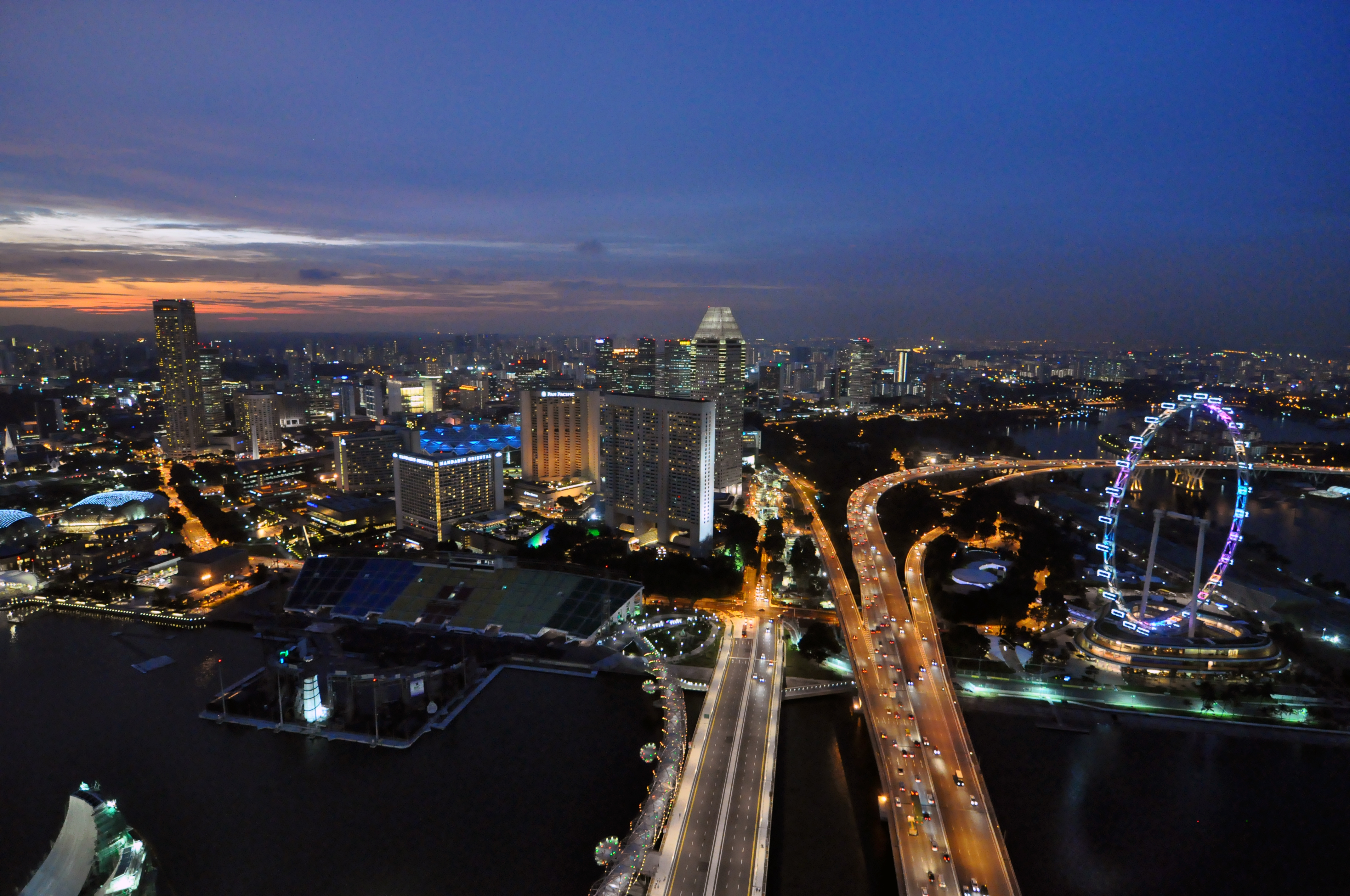 Marina Bay Sands Skypark night panorama Singapore Flyer 2010